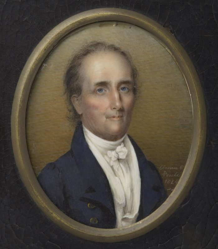 Thomas Law (1756 - 1834) Anna Claypoole Peale, American, 1791 - 1878 Geography: Made in Philadelphia, Pennsylvania, United States, North and Central America Date: 1824 Medium: Watercolor on ivory; painted wood, gold colored metal, glass Dimensions: 2 7/8 × 2 3/8 inches (7.3 × 6 cm) Frame: 5 1/4 × 4 1/4 inches (13.3 × 10.8 cm) Curatorial Department: American Art Object Location: Currently not on view Accession Number: 2008-112-3 Credit Line: Gift of the McNeil Americana Collection, 2008